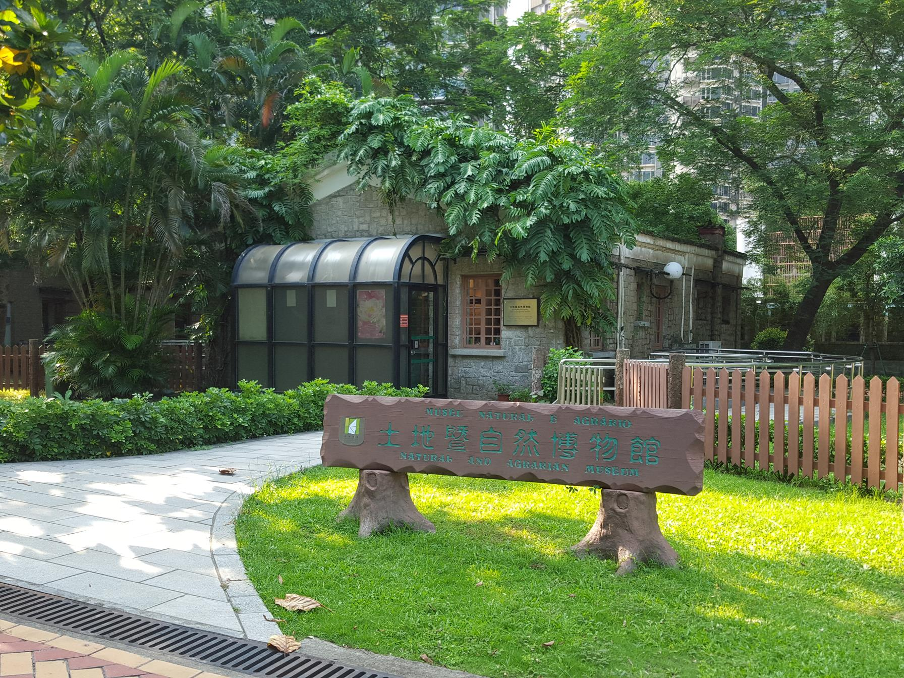 Macau Natural And Agrarian Museum